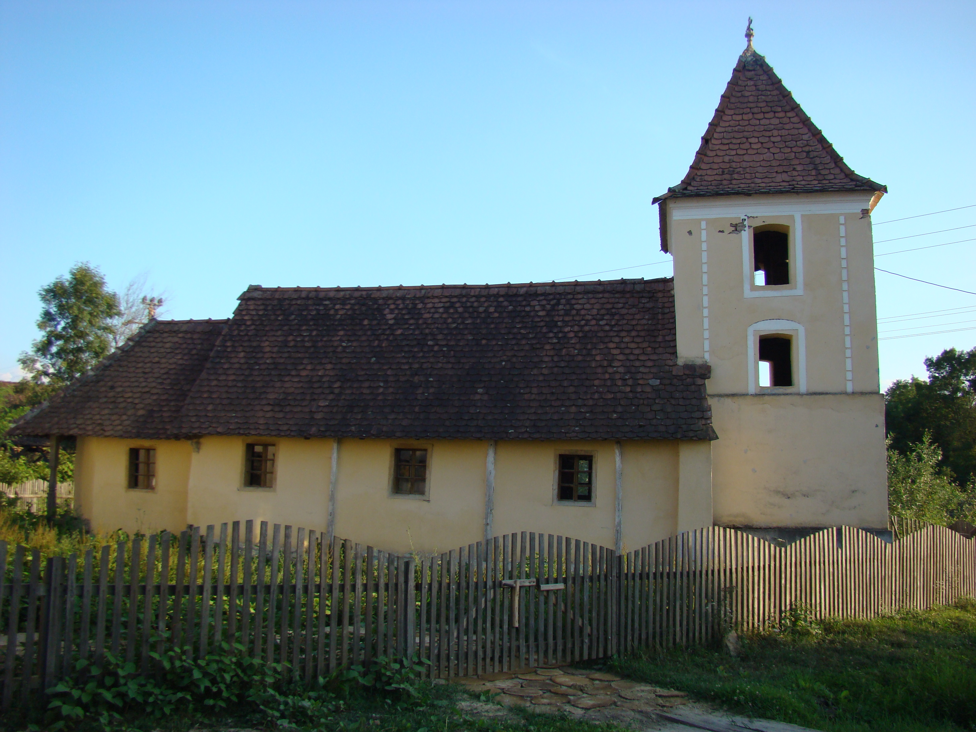 The wooden church in Săsăuș, Sibiu county, Romania